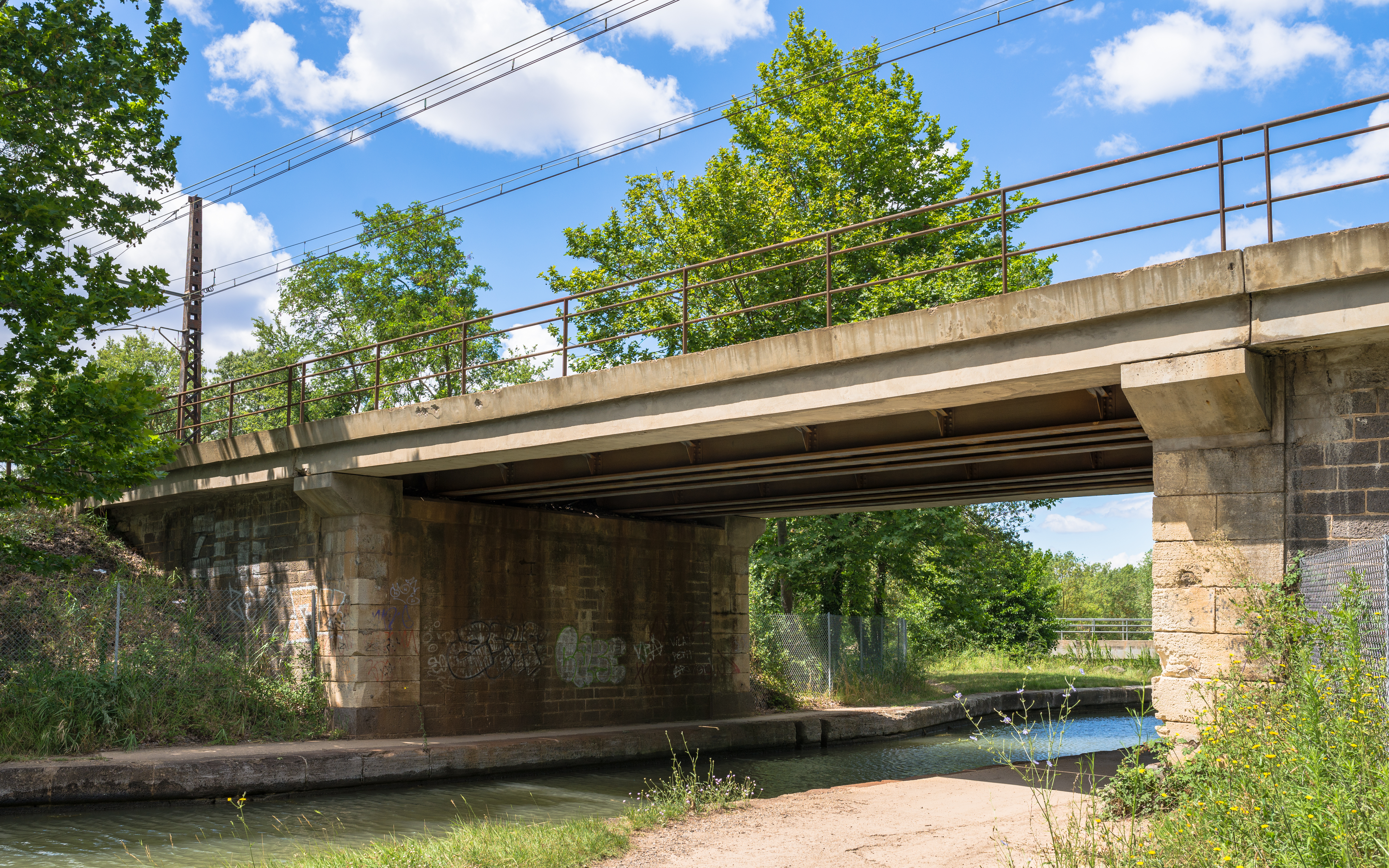 The railway bridge over the Canal du Midi. Place : Vias, Hérault, France.